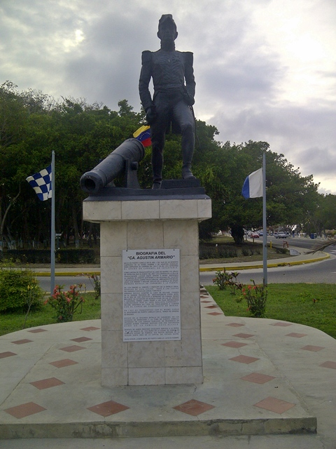 Monumento ubicado en la base naval Agustin Armario Puerto Cabello